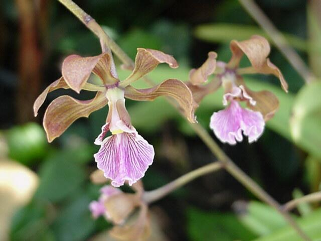 Encyclia hanburii (Lindl.) Schltr. 1914 in the humid room of the Como Conservatory. St. Paul, Minn., 2001.